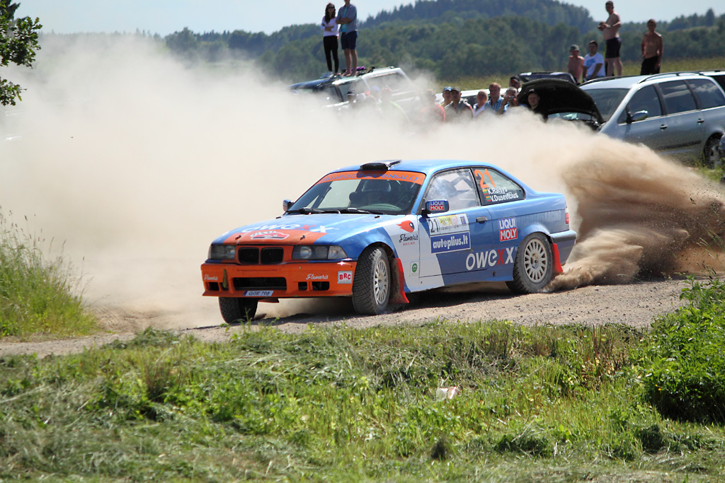 Rally driver Karolis Raišys, BMW M3